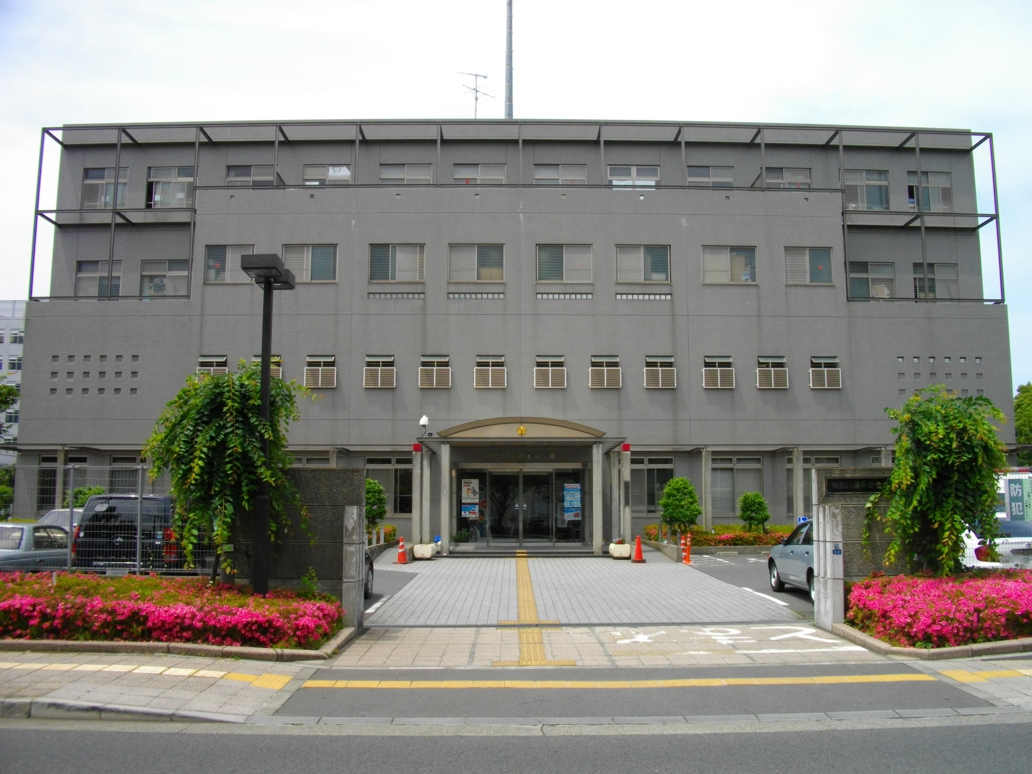 Hiratsuka Police Station